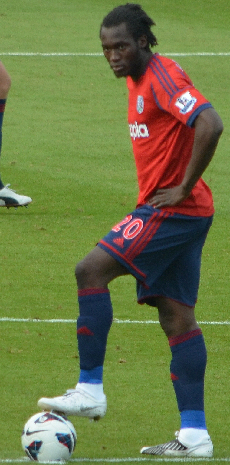 WBA at start of second half